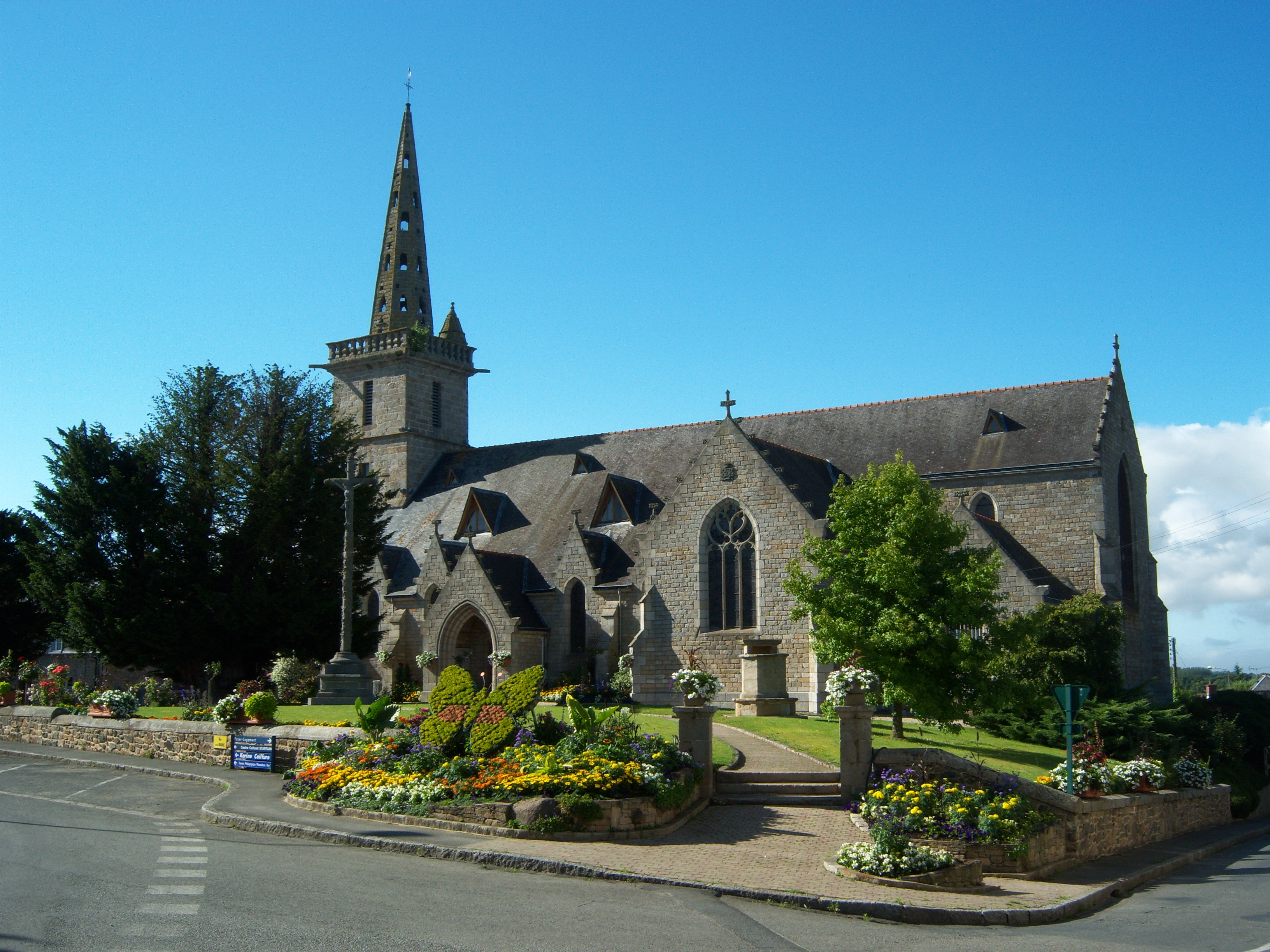 Photograph of the church of Pommerit-le-Vicomte and the yew tree.